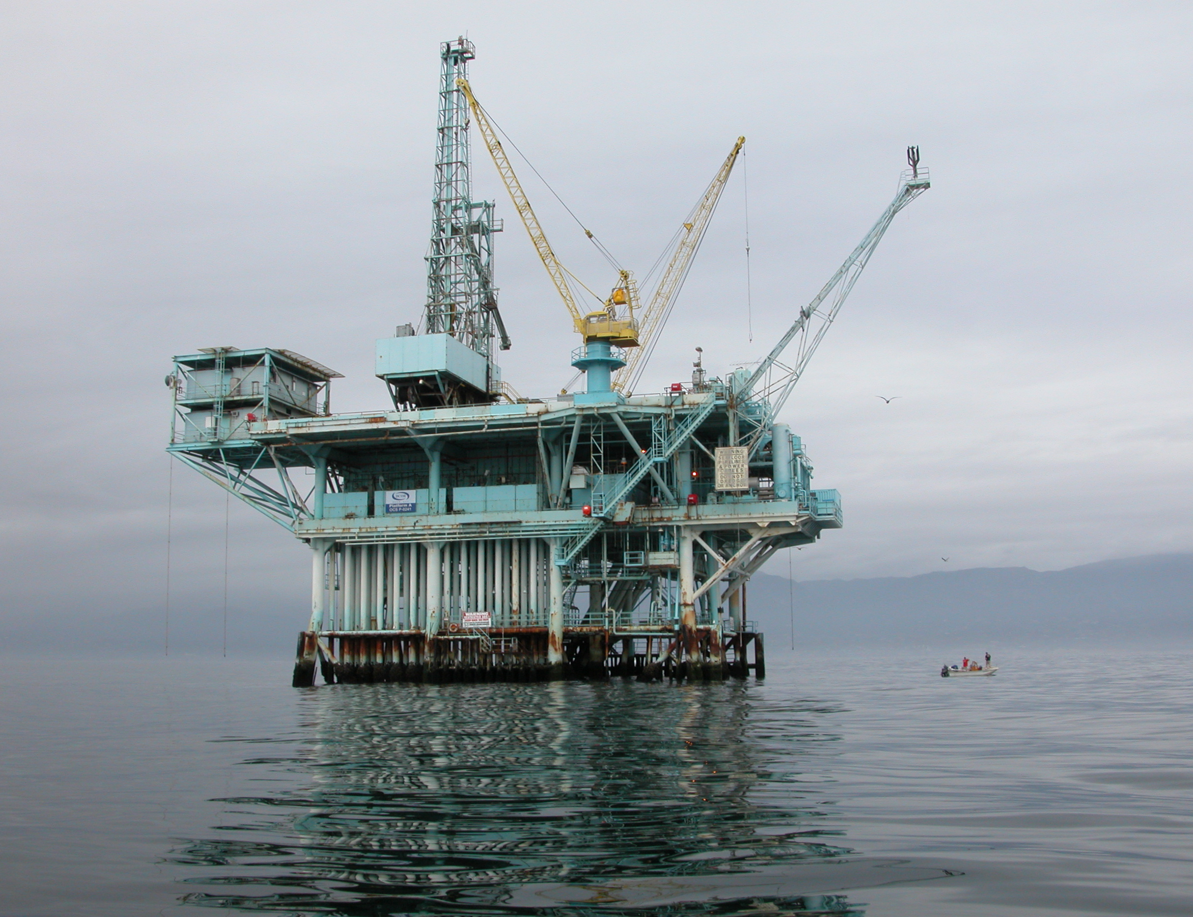 Platform A, Dos Cuadras offshore oil field, Santa Barbara. This is the one that blew out in the famous Santa Barbara Oil Spill of 1969.